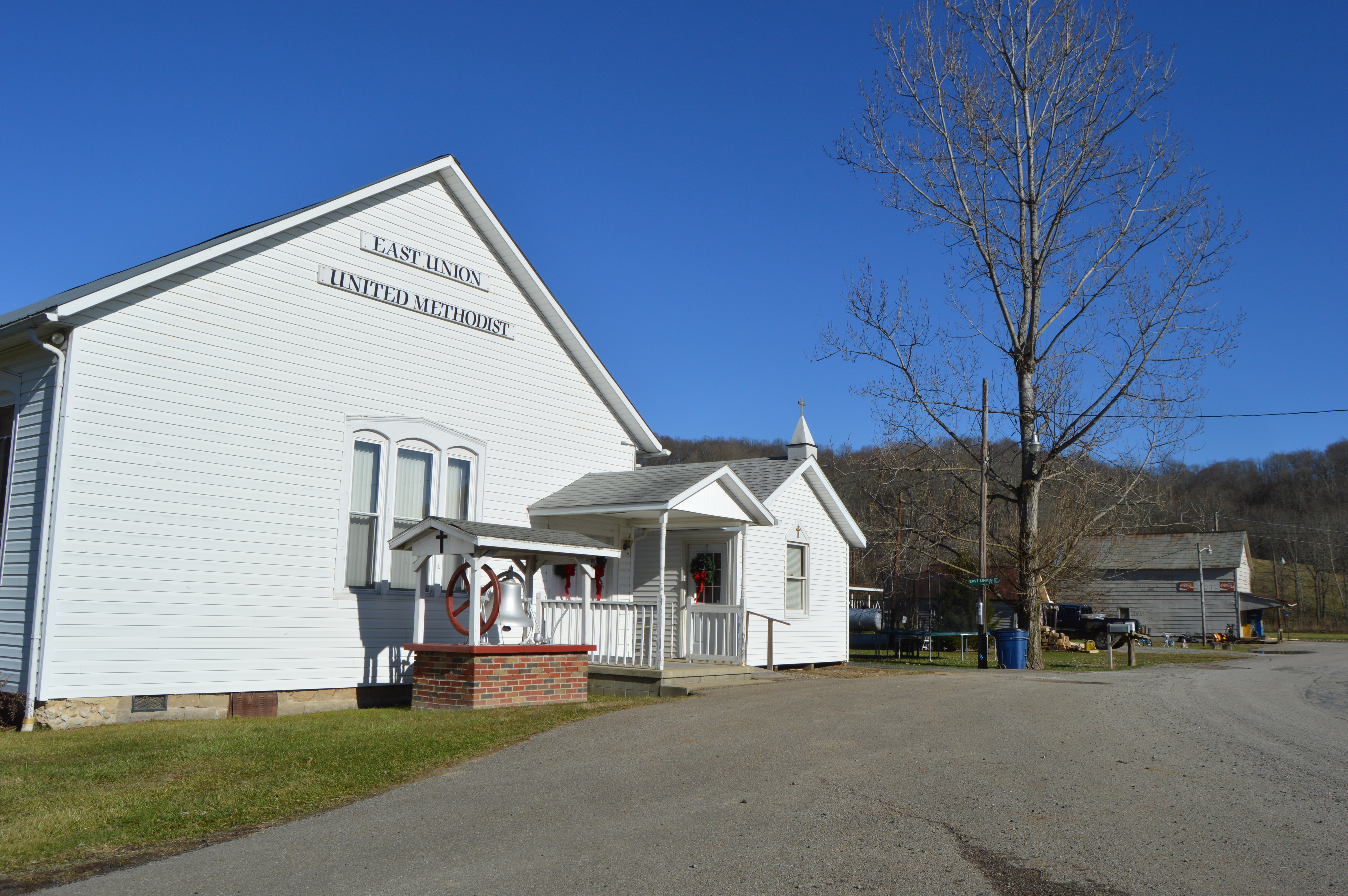 Methodist church and houses on Doshie Road at East Union in Stock Township, Noble County, Ohio, United States.